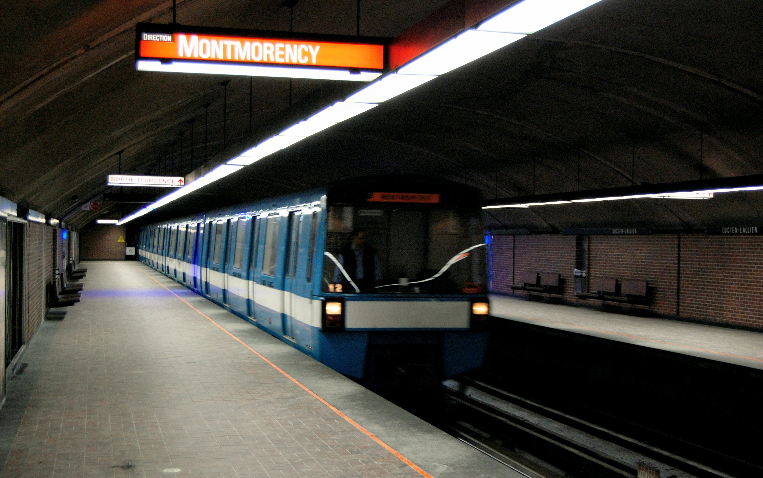 An orange line Metro train (direction Montmorency) arrives at Lucien-L'Allier (Montreal Metro).